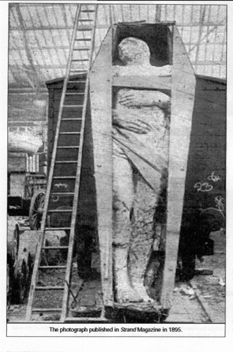 Irish Giant